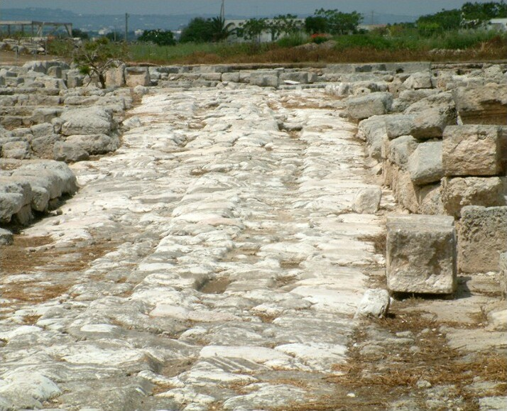 Via Traiana in roman ruin town Egnazia, Apulia (Italy).